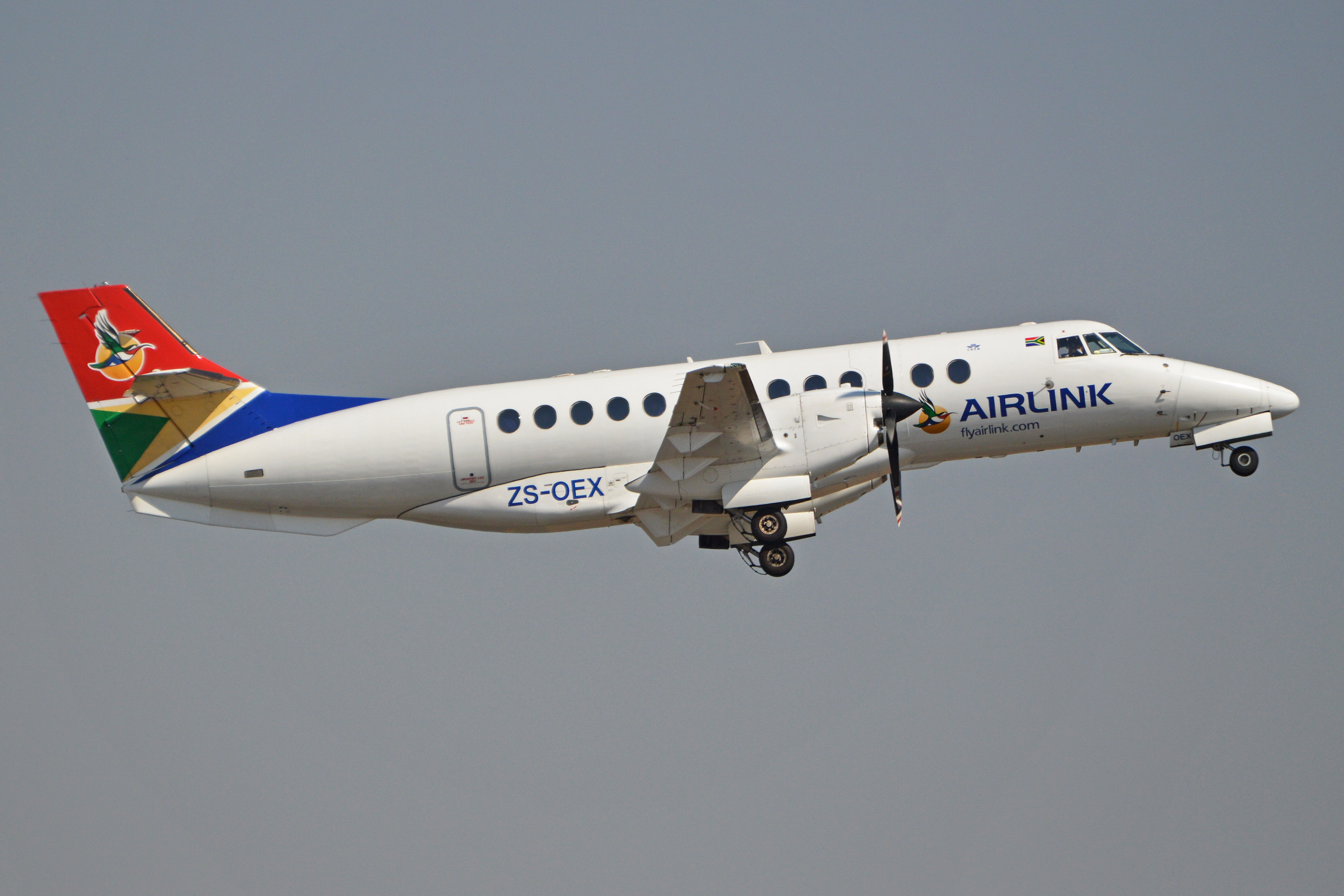 c/n 41103. Built 1997. Seen departing O.R. Tambo International Airport, Johannesburg, South Africa. 16-9-2014